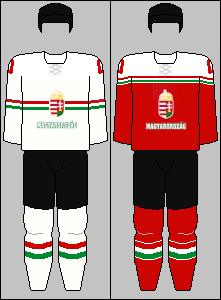 The home and away jerseys of the Hungarian national ice hockey team used since the 2016 IIHF World Championship.